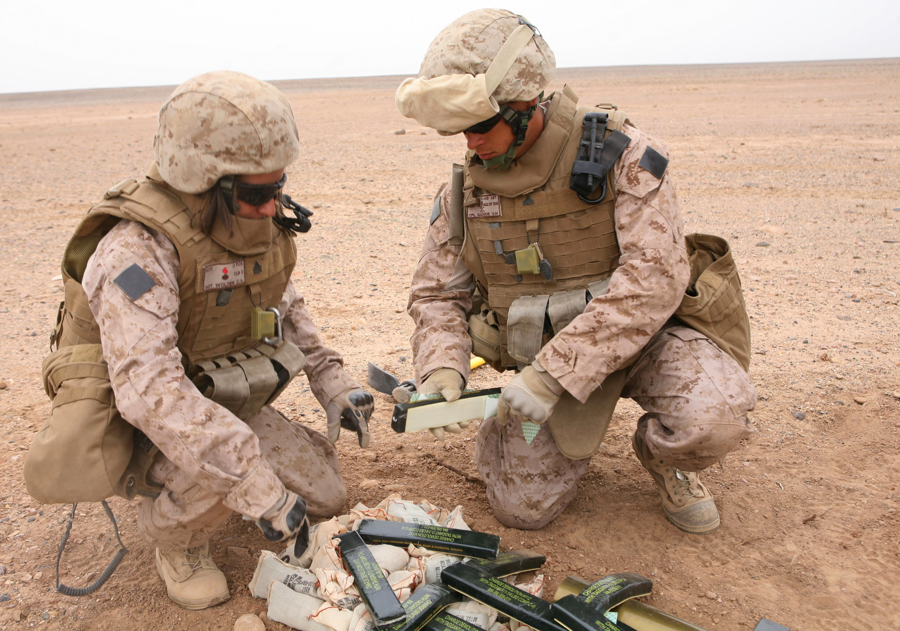 Sgt. Chanel S. Wolter (left) and Cpl. Victor M. Gallegos place composition C-4 plastic explosives on unserviceable ordnance during a training evolution at a demolition range on Camp Bastion, Afghanistan, Feb. 21, 2009. Ammunition technicians with Headquarters Company, Combat Logistics Battalion 3, and Okinawa-based explosive ordnance disposal technicians with 3rd EOD Platoon, assigned to CLB-3, worked together to dispose of unserviceable ammunition and ordnance. CLB-3 is the logistics combat element of Special Purpose Marine Air Ground Task Force-Afghanistan, whose mission is to conduct counterinsurgency operations, with a focus on training and mentoring the Afghan national police. Wolter is an ammunition technician, and Gallegos is a traffic management office expediter, assigned to Headquarters Co., CLB-3.